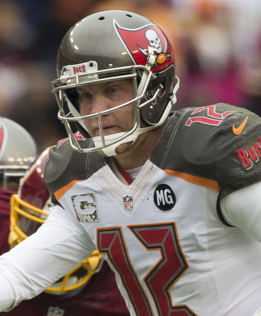 Buccaneers at Redskins 11/16/14